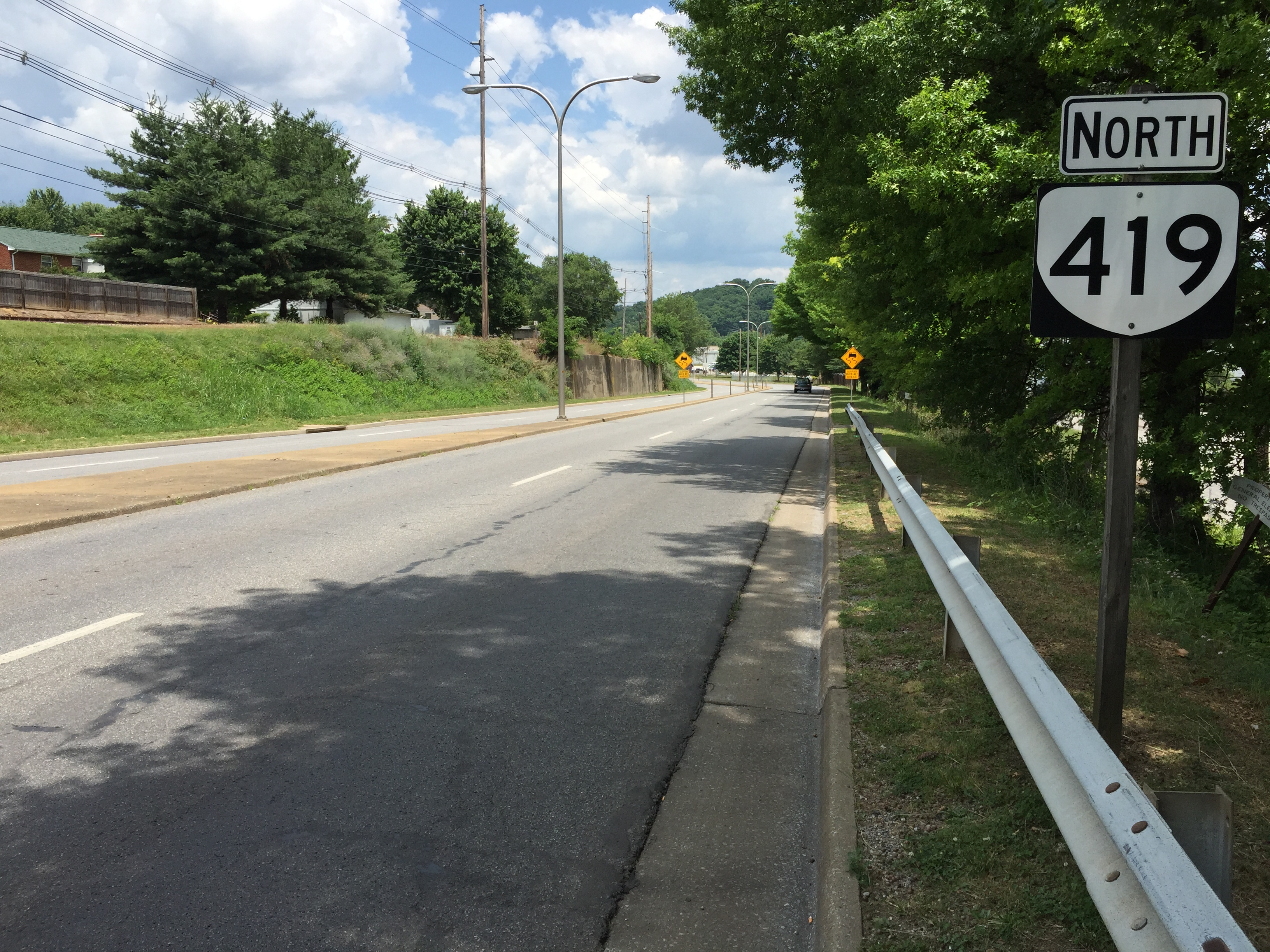 View north along Virginia State Route 419 (Electric Road) at Roanoke Boulevard in Salem, Virginia